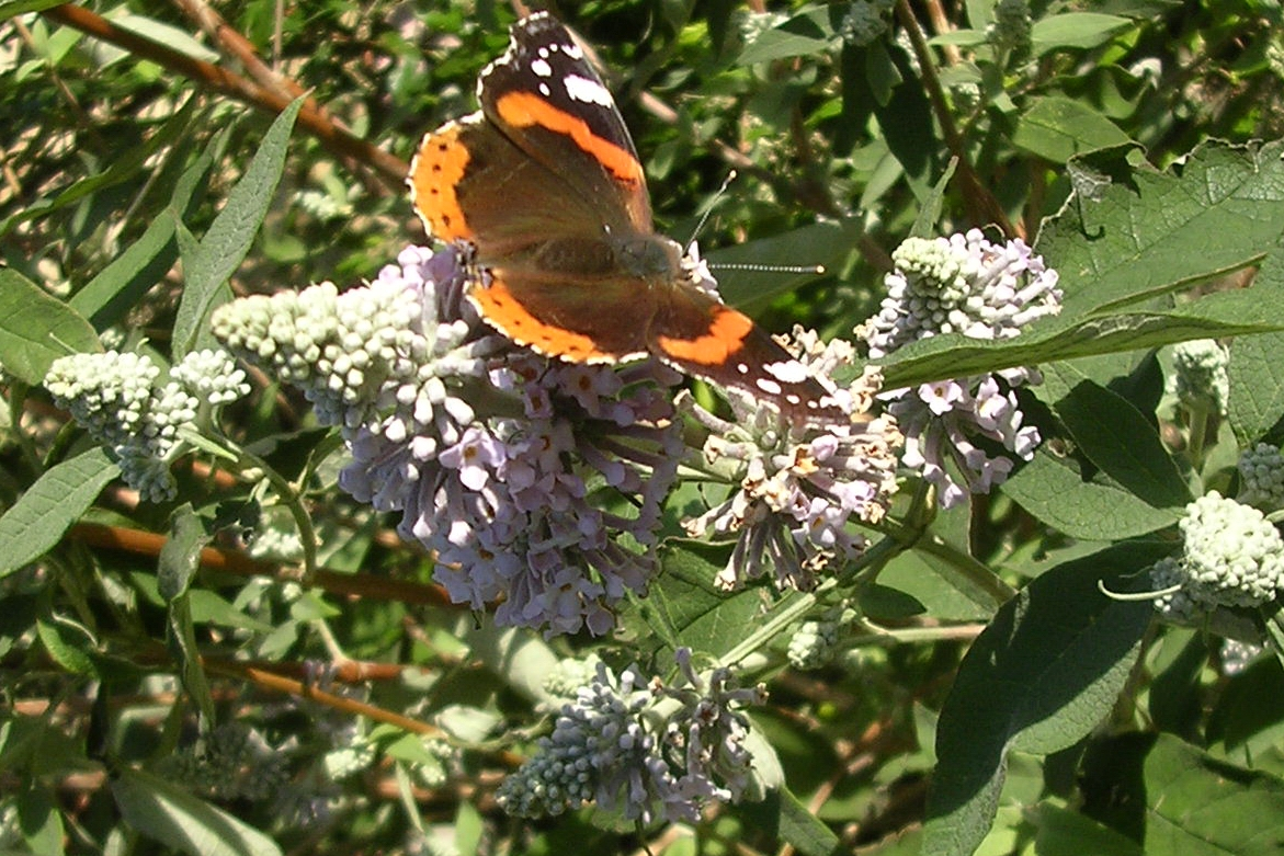 Photo of Buddleja officinalis flowers with Red Admiral butterfly nectaring. Photo taken in Portchester, England.